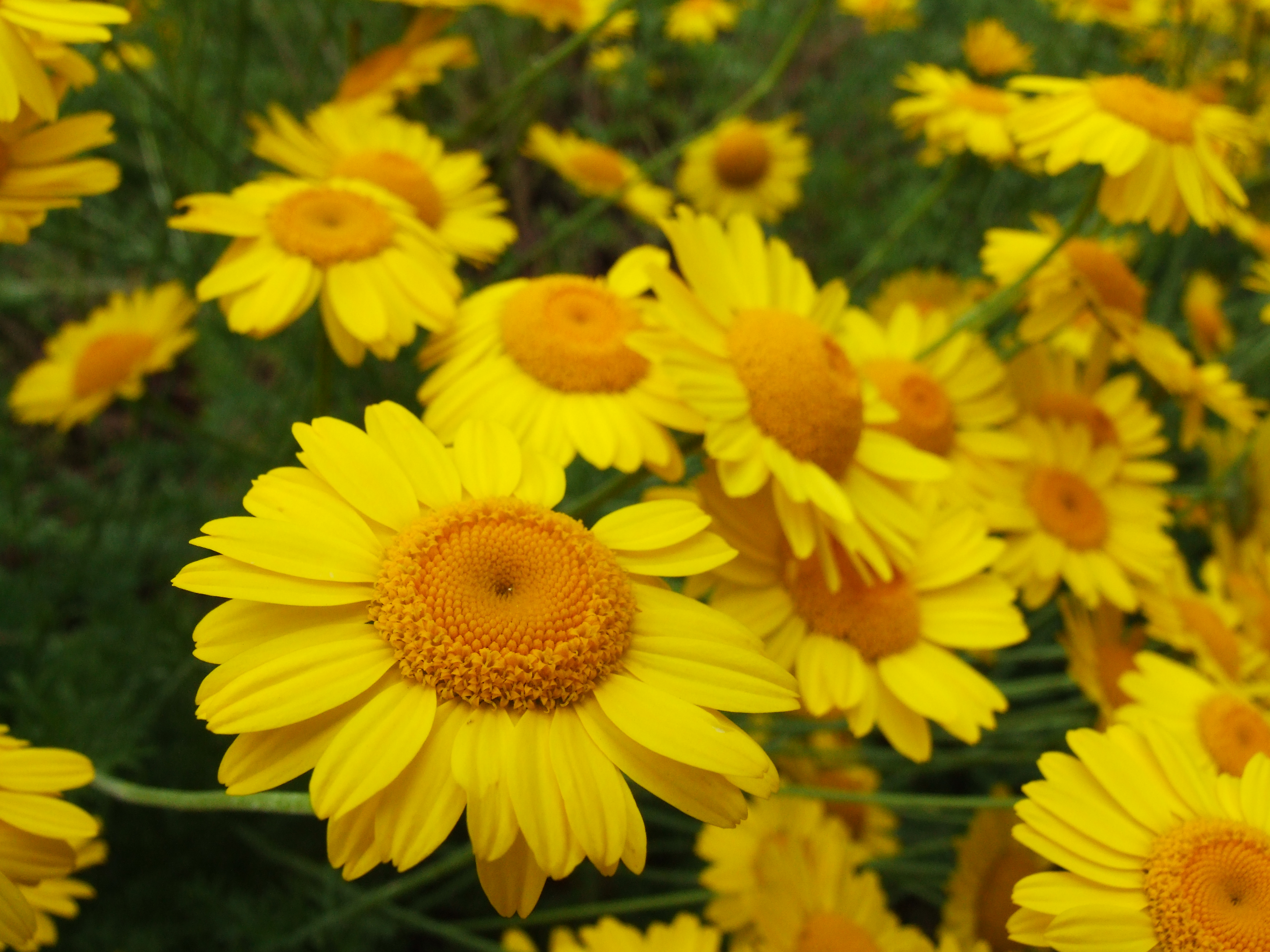 Plant at the Royal Tasmanian Botanical Gardens